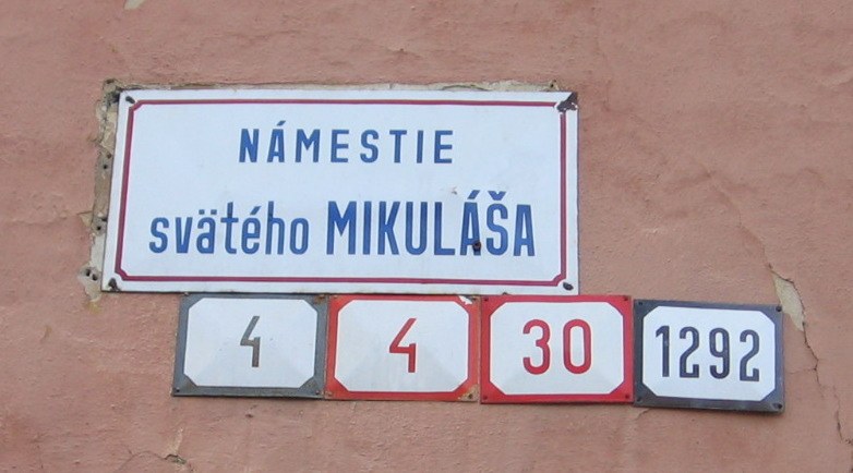 Taken in Stará Ľubovňa (Slovakia), 49.309444N,20.678889E. Example of the house numbering scheme used in Czech Republic and Slovakia. The red number refers to the street number (just like everywhere else in Europe), and the black (or blue) one is a unique, consecutive number of the building in the town - the conscription number. Unusually in Europe, this house additionally carries numbers from two "domains": the left set is the house number on the square (náměstí, námestie), the right set is the house number on the adjacent street.